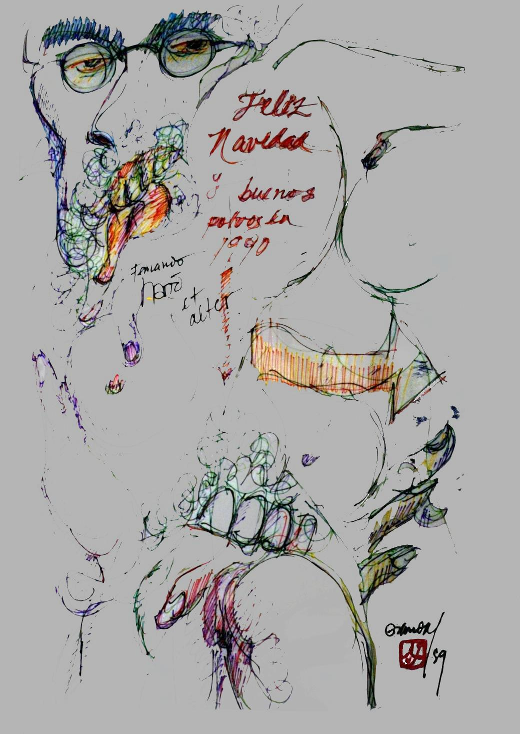 Feliz Navidad y buenos polvos(Merry Christmas and happy...). Inks on Chinese Rice Paper. By Fernando Granda.